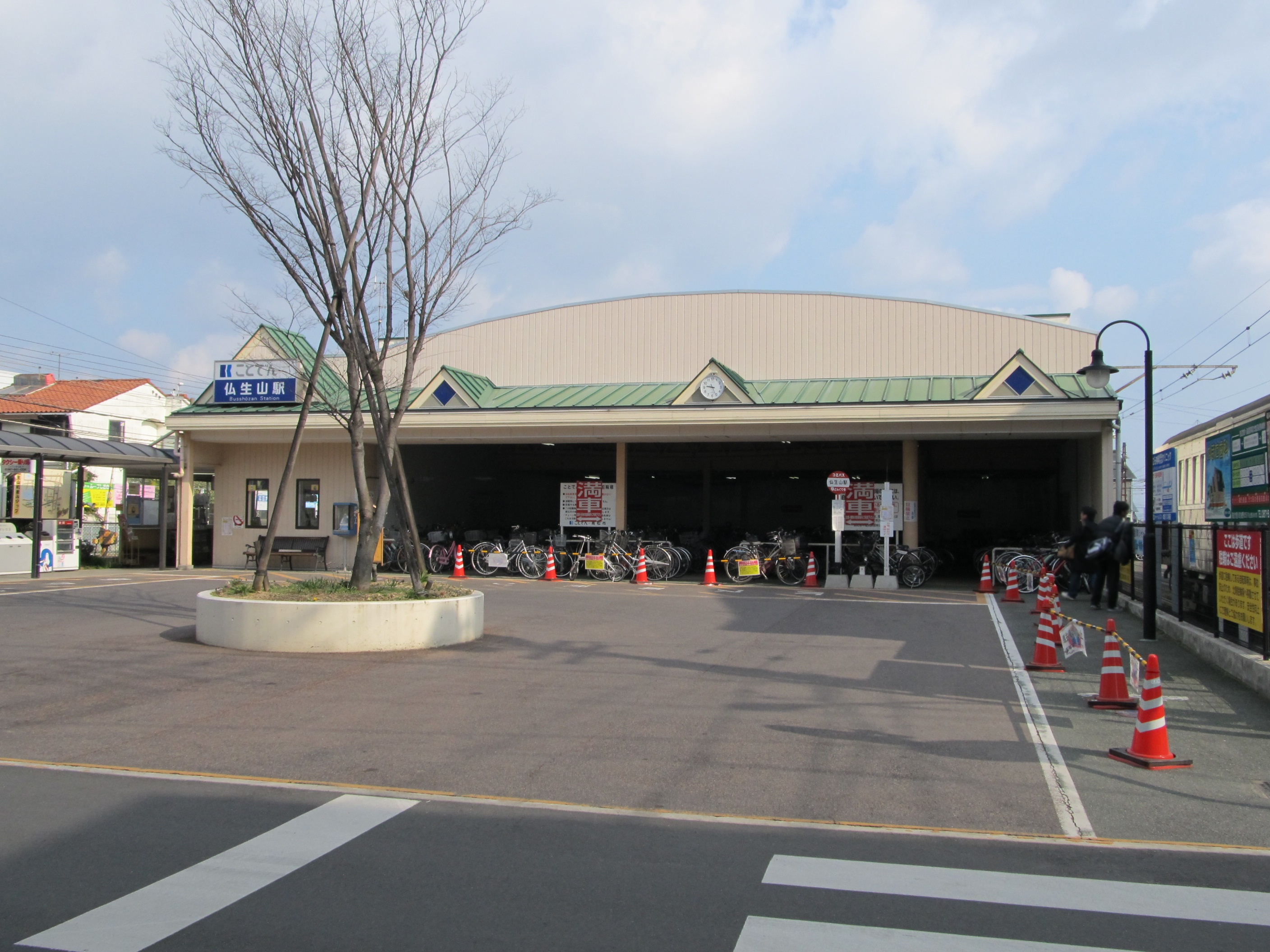 Takamatsu-Kotohira Electric Railroad Kotohira Line Busshōzan Station Building